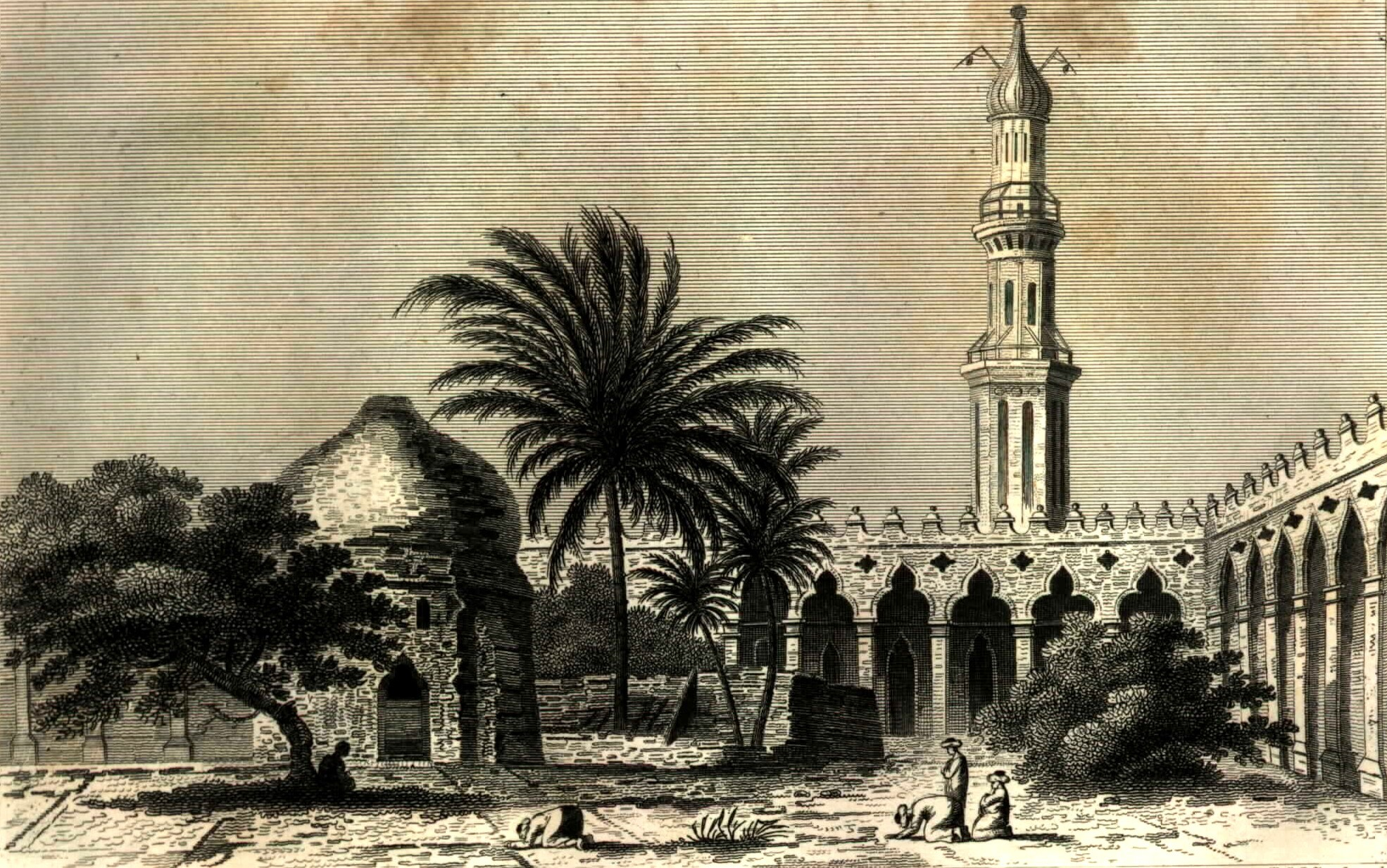 Alexandria old drawings